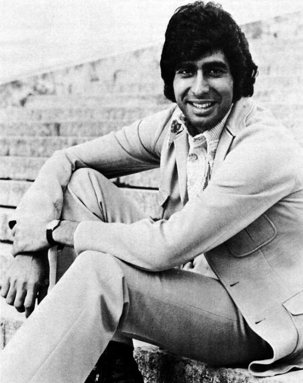 Trade ad for Andy Kim's single "Be My Baby". To better adapt it to his respective Wikipedia article, the ad was cropped and cleaned in a graphics editing program. The original can be viewed at the source below.